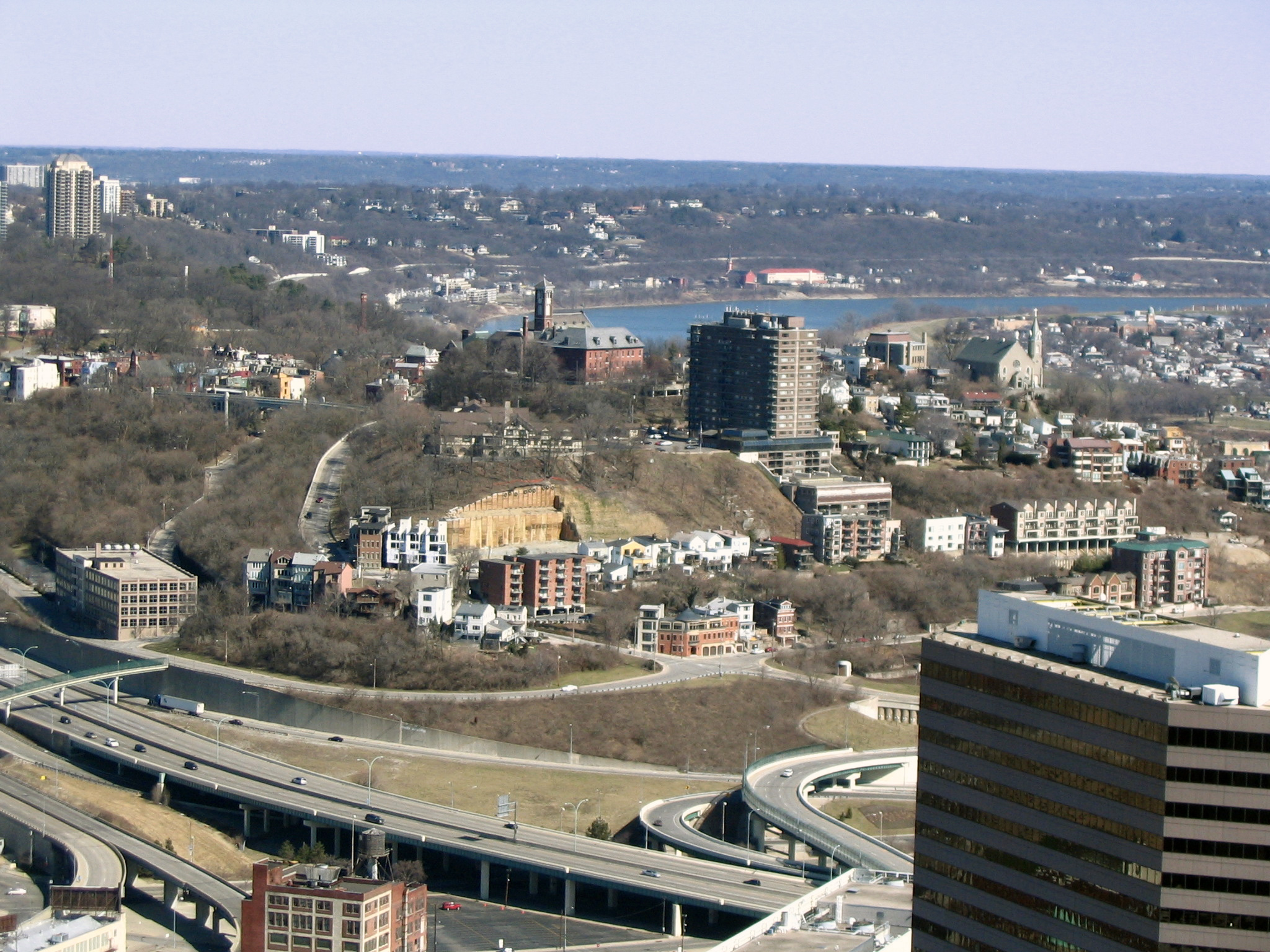 The remains of the Mount Adams Incline in Cincinnati, Ohio (as viewed from the top of the Carew Tower) Photo shot by Mike Taylor (Sunkorg), 2006-February-26